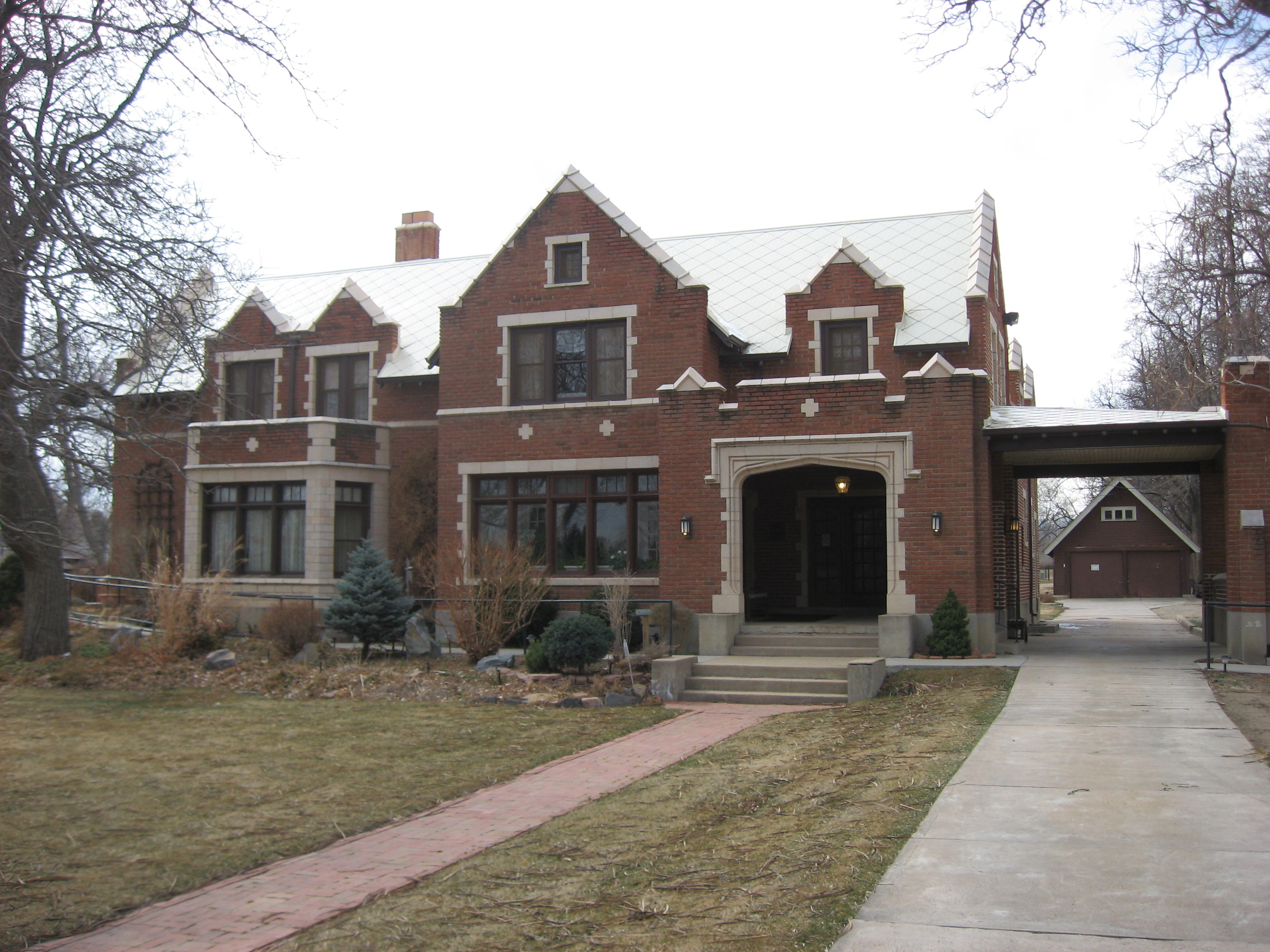 The Hoverhome and Hover Farmstead, located at 1303 Hover Road in western Longmont, Colorado, United States. Built in 1902, the house and farm were listed on the National Register of Historic Places in 1999.